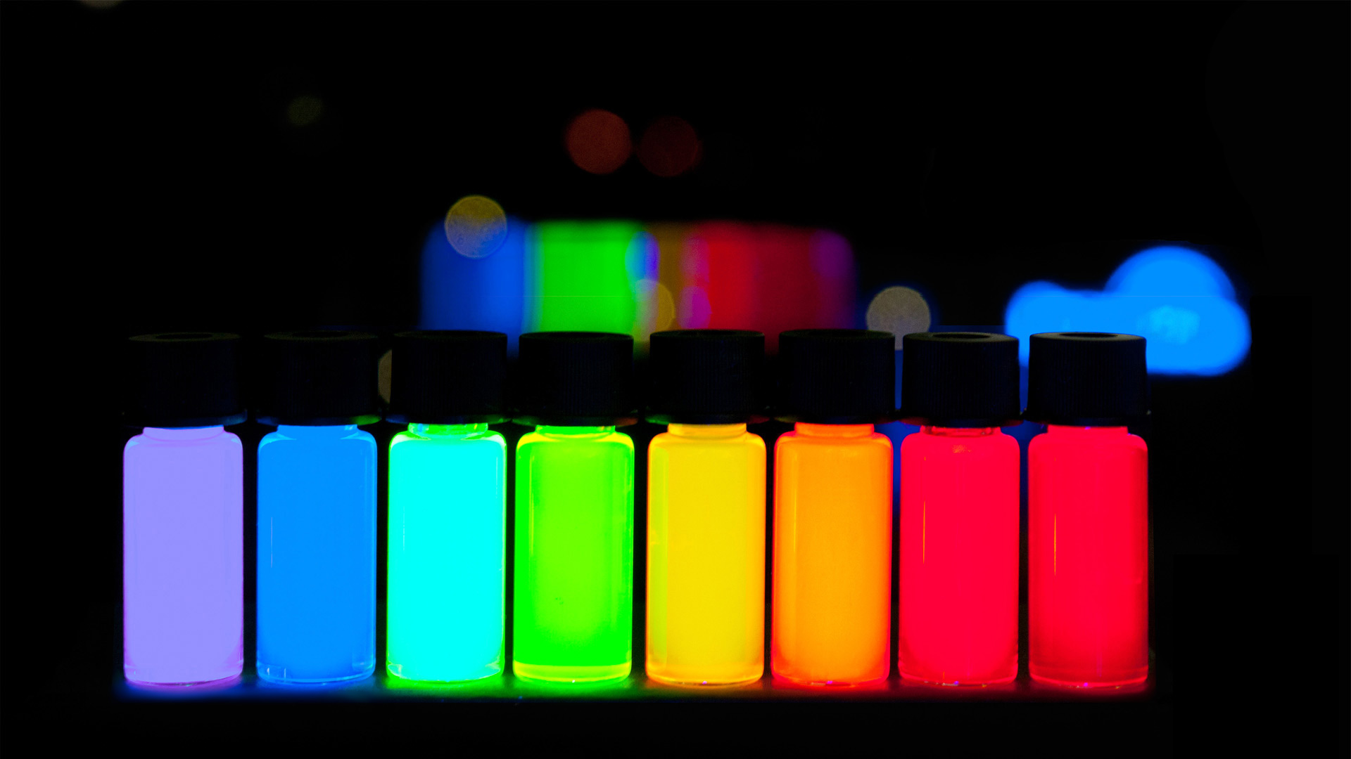 Quantum dots with vivid colours stretching from violet to deep red are being currently manufactured at PlasmaChem GmbH at a large scale. HD-image, can be used as a background on monitors, TV-sets, and other devices.